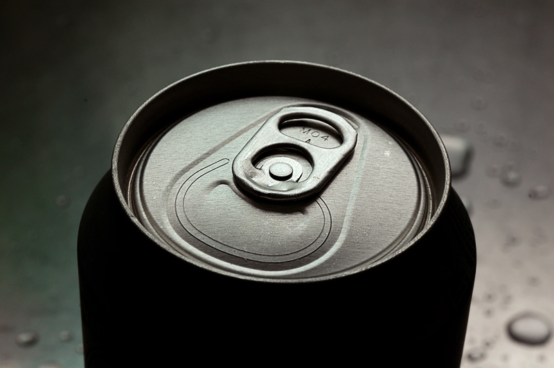 The ring-pull tab on an aluminium drinking can.